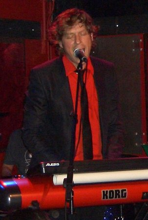 Itaal Shur at the Rockwood Music Hall, 2009-12-10.